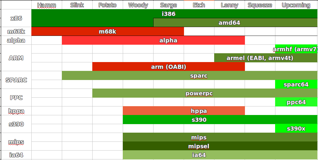 wish this was in a better format, but the timeline mediawiki stuff looks like a royal PITA